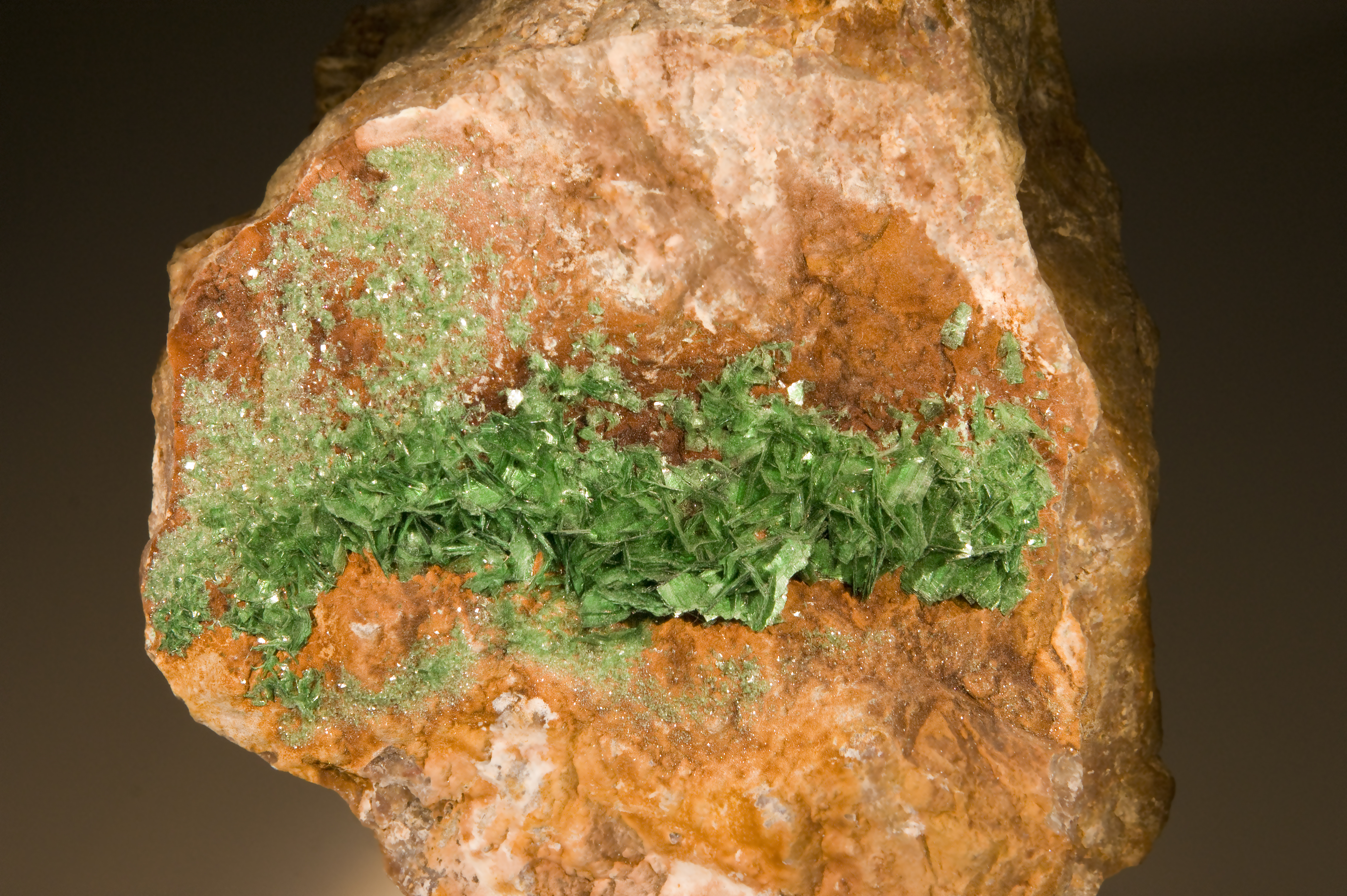 Torbernite - Les Bois Noir, Saint-Priest-La-Prugne, Loire, France (10.5x8.5cm)